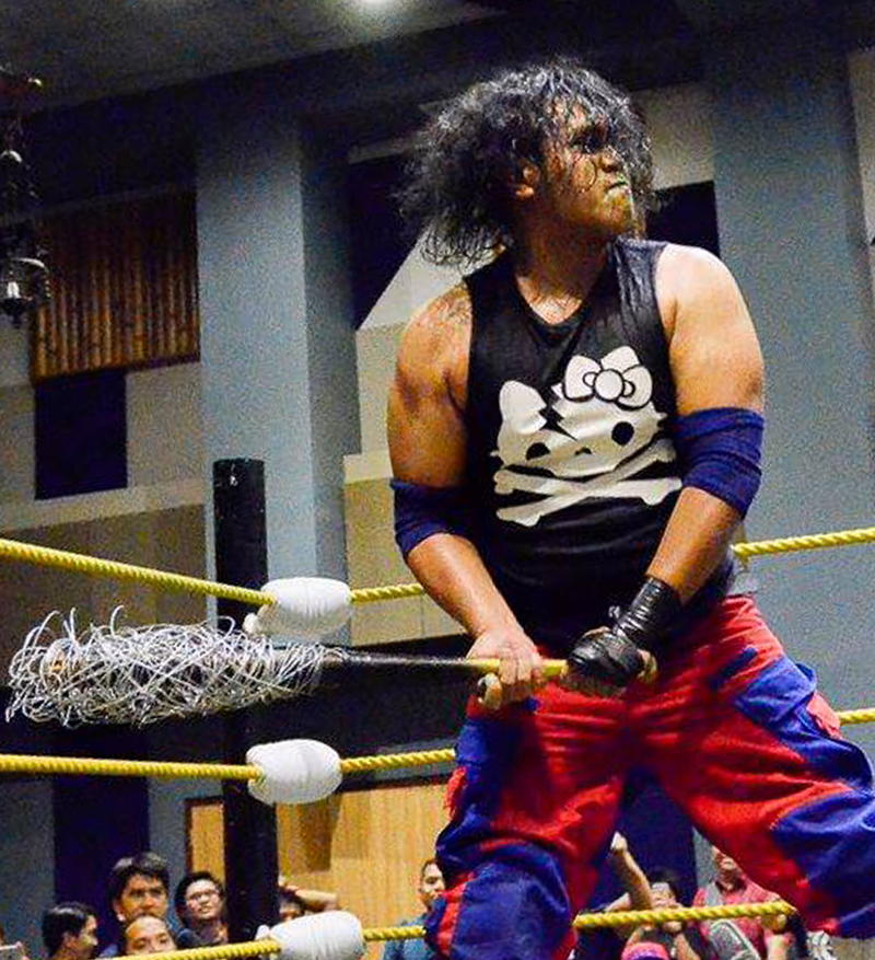 Bombay holding a baseball wrap with barbed wire. (2nd Annual Wrevolution X)